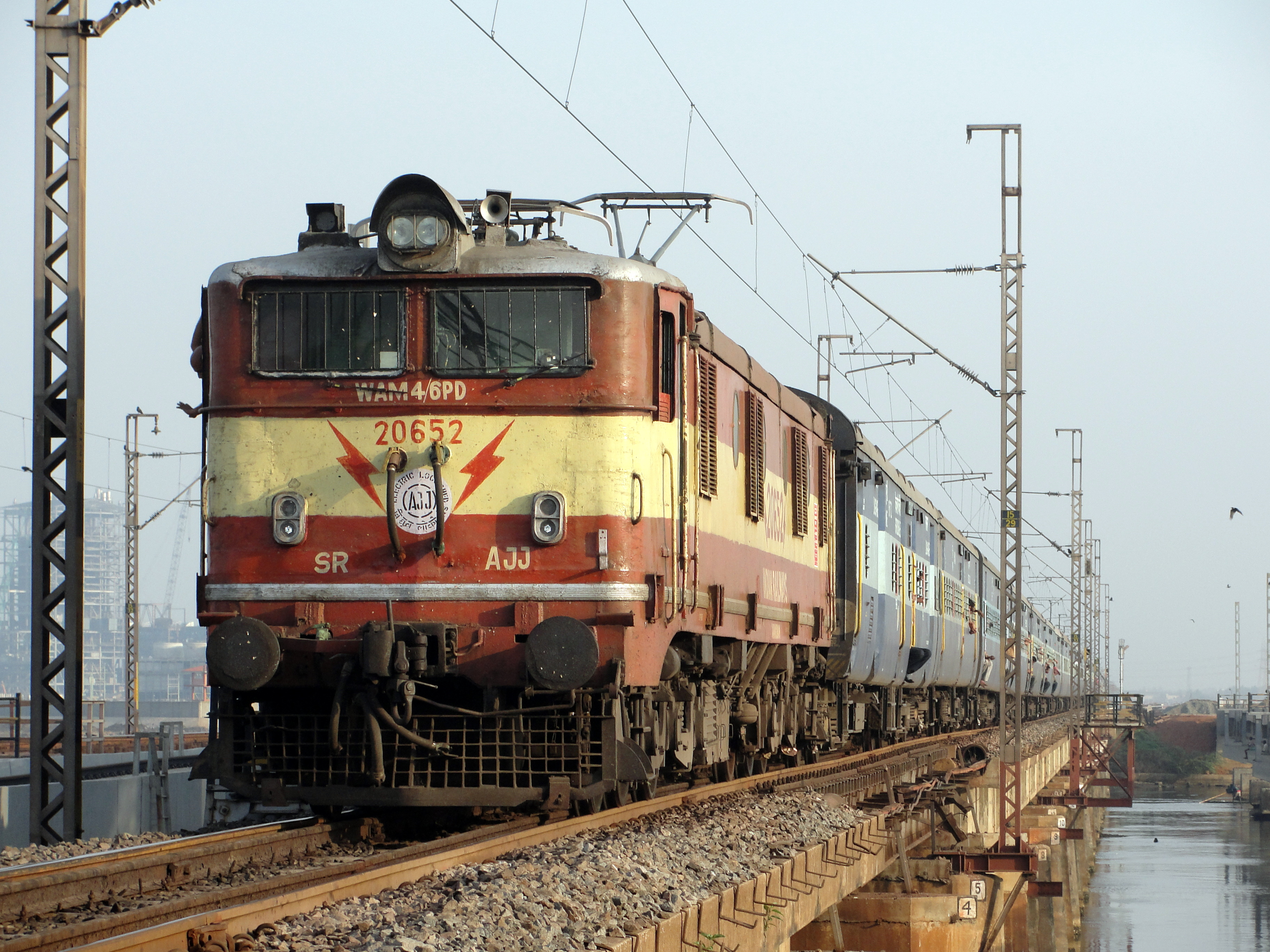 Indian Railways WAM-4